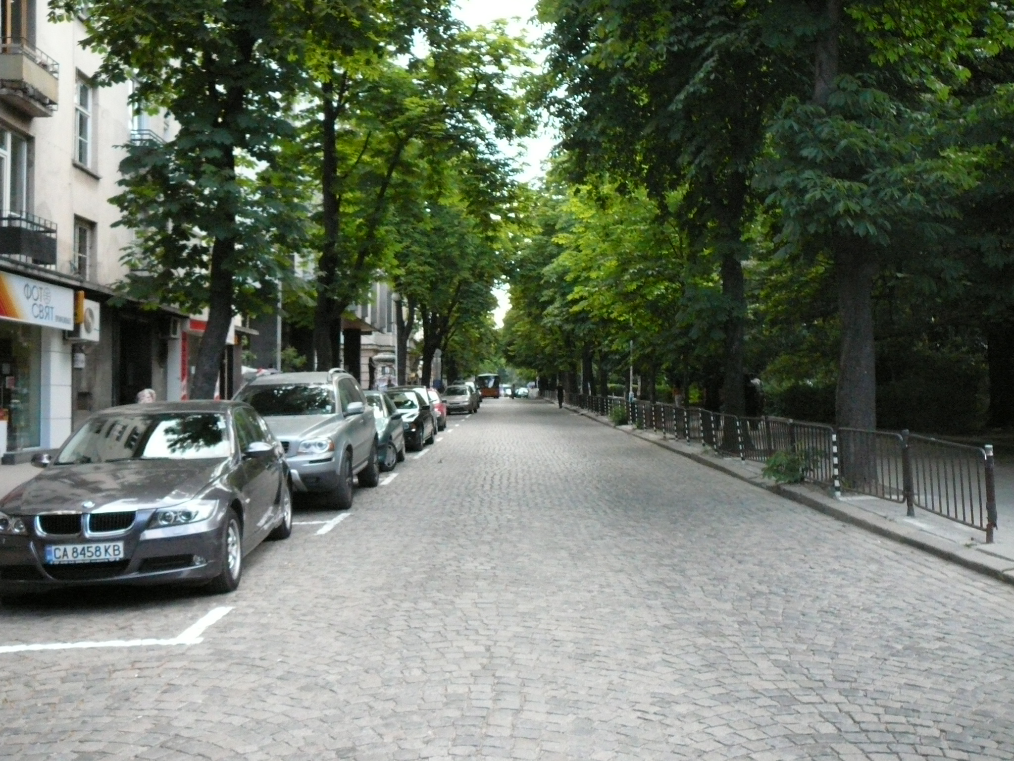 Shipka Street, Sofia